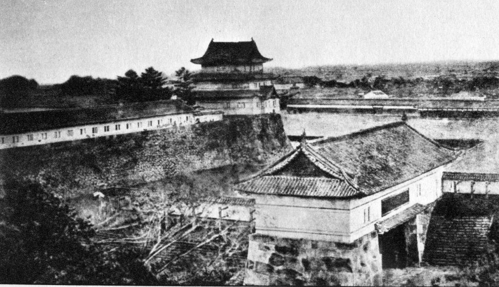 Sakashita-Mon,Hasuike tatsumi Mie tower